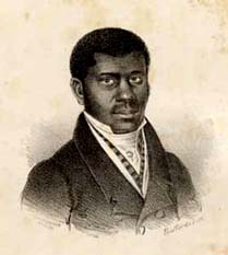 Taken from Memoir of Pierre Toussaint, Born a Slave in St. Domingo: Electronic Edition. By Lee, Hannah Farnham Sawyer, 1780-1865